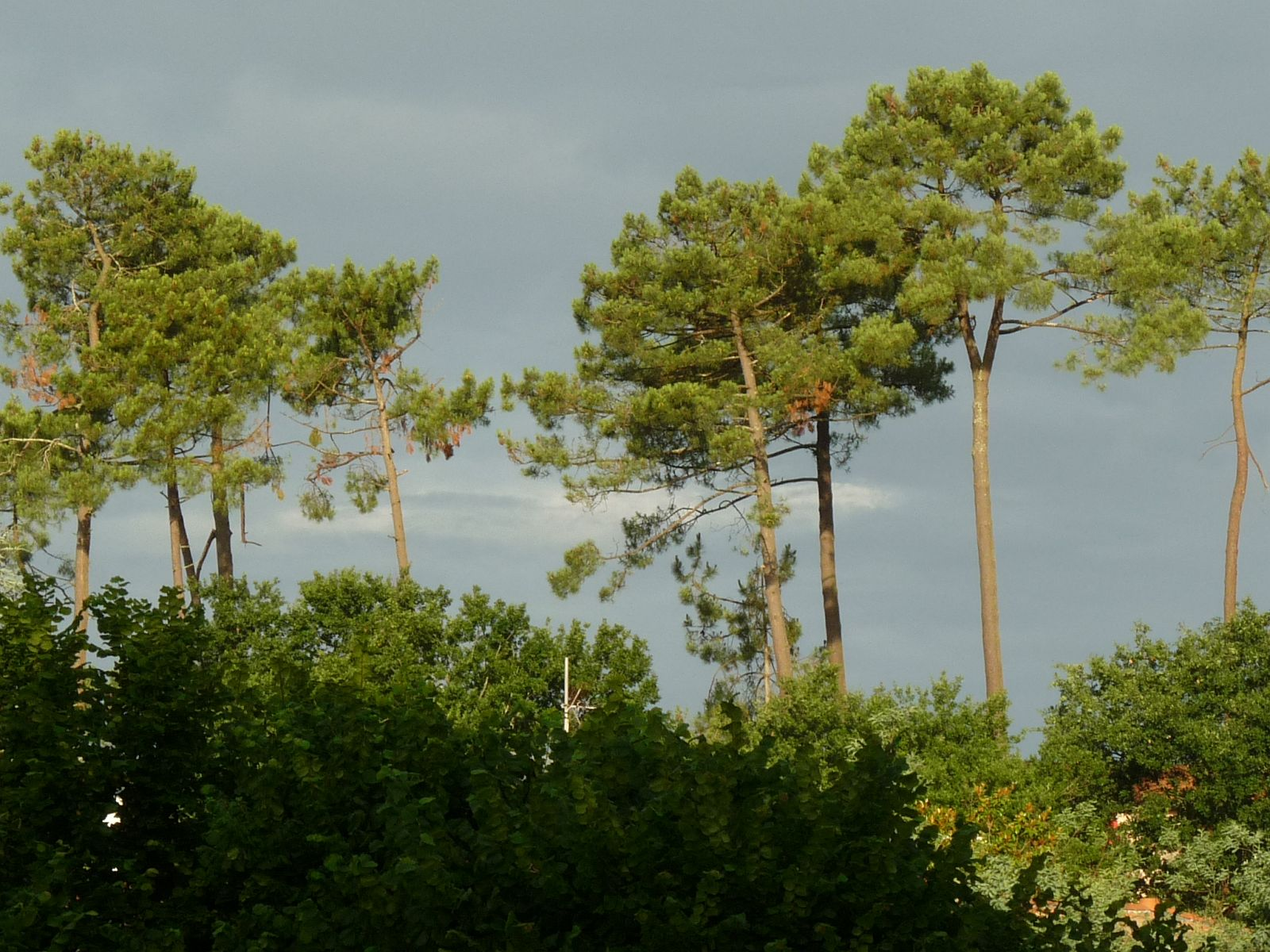 Pines of Landes forest at Mimizan, France